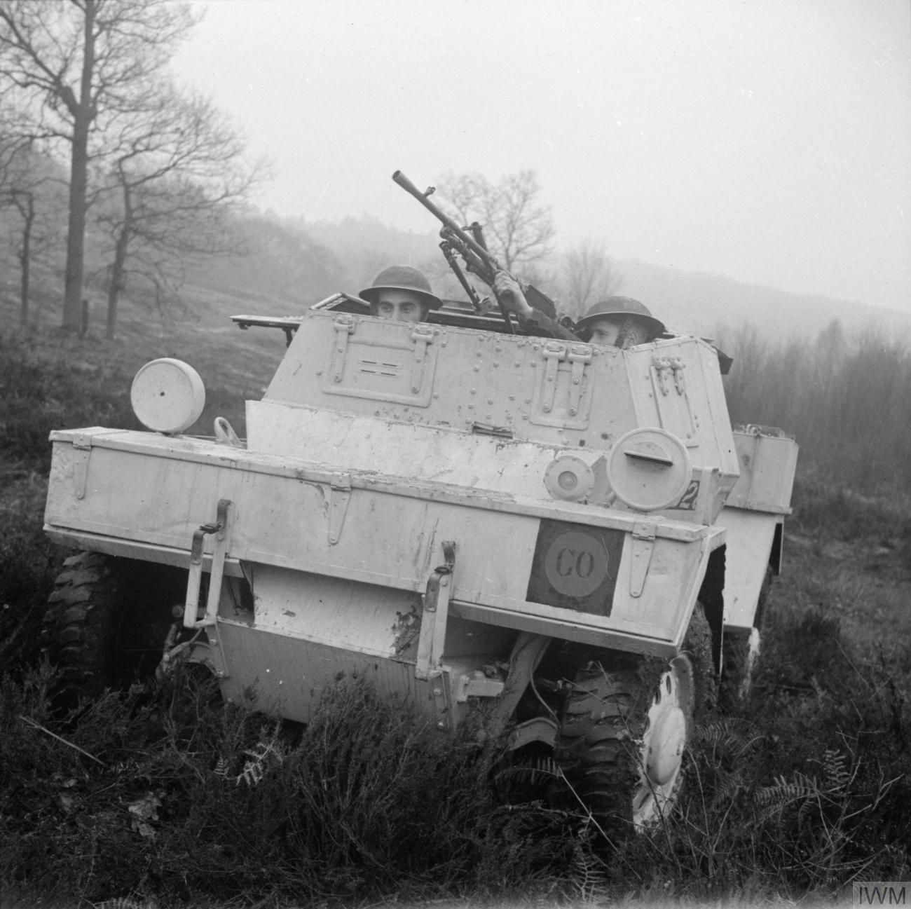 The British Army in the United Kingdom 1939-45 Scout car of 40th Royal Tank Regiment, 8th Armoured Division at Warren Camp, Crowborough in Sussex, 22 December 1941. The regiment was about to embark for the Middle East, hence the desert camouflage.